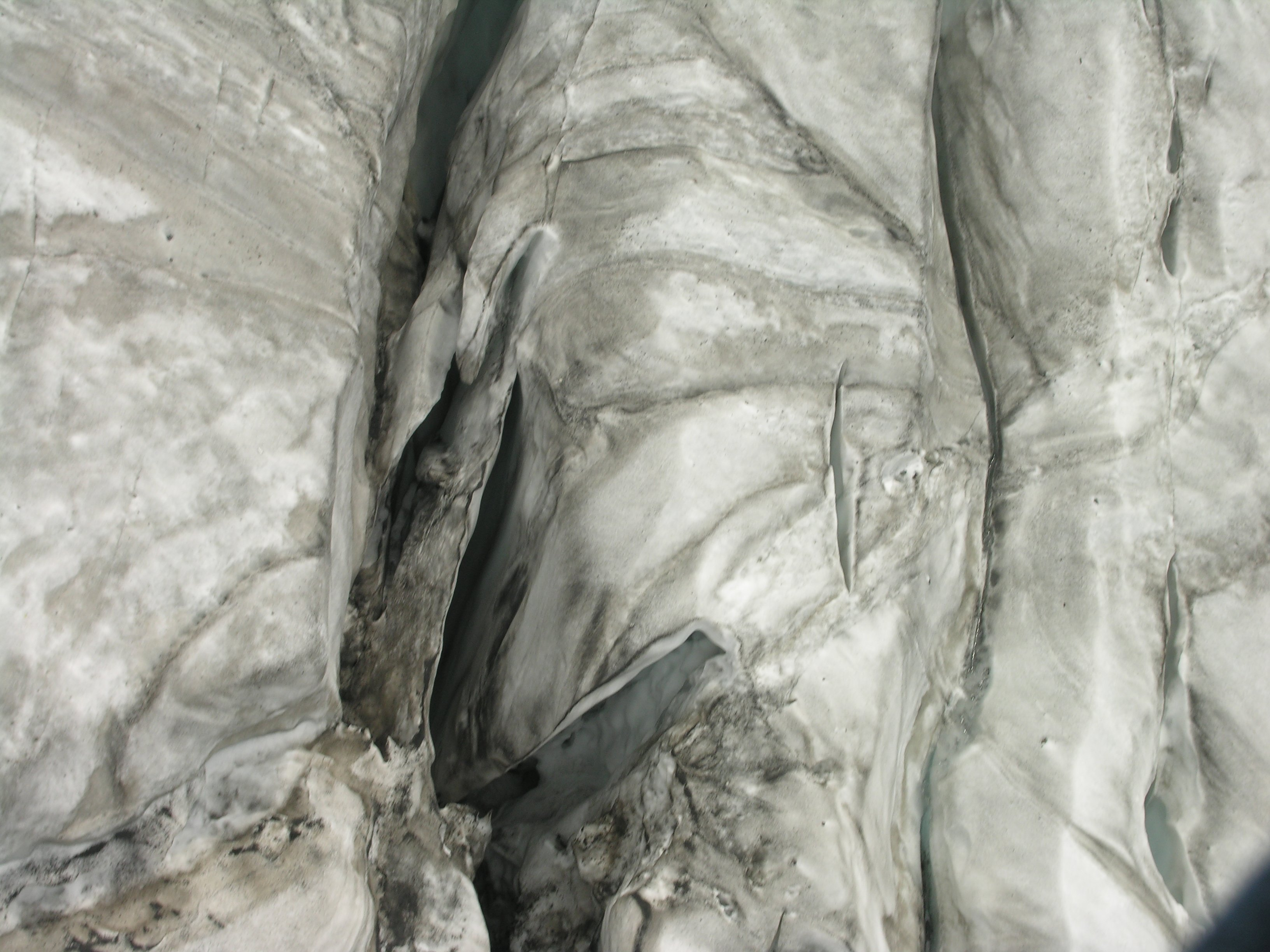 Ice cracks in the Titlis glacier